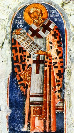 St. Gregory the Illuminatory, XIV century Byzantine icon. Retrieved from [1]